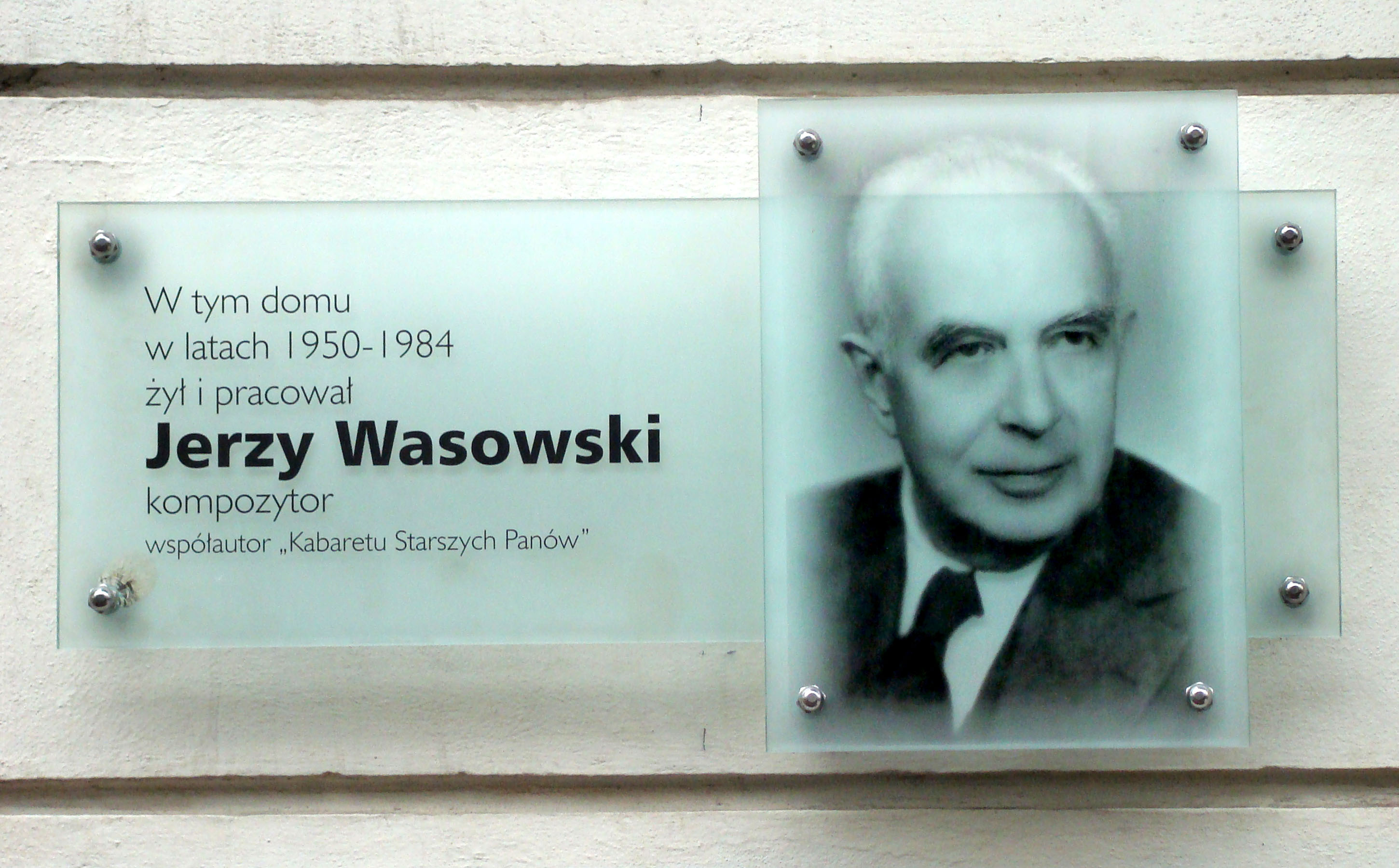 Jerzy Wasowski Polish composer and actor